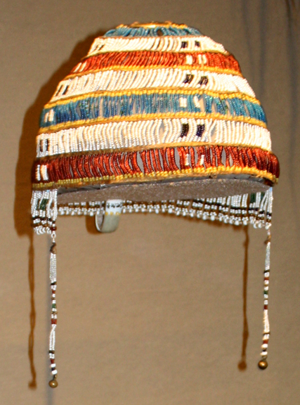 Alutiiq woman's headdress, ca. 1890-1920, collection of the National Museum of the American Indian, Washington DC. Attributed to Chugach Native Corporation. NMAI 25/2553